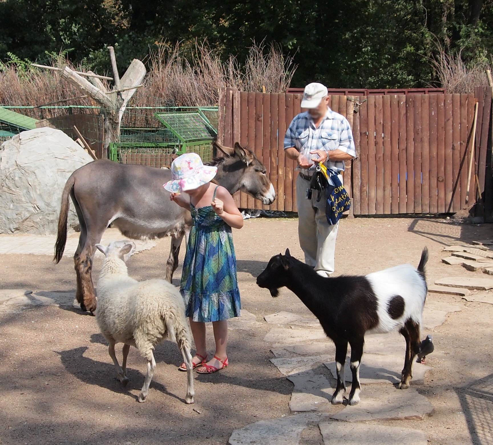 Customers and animals in Kiev Zoo. This photograph was taken with a Olympus E-PL1.